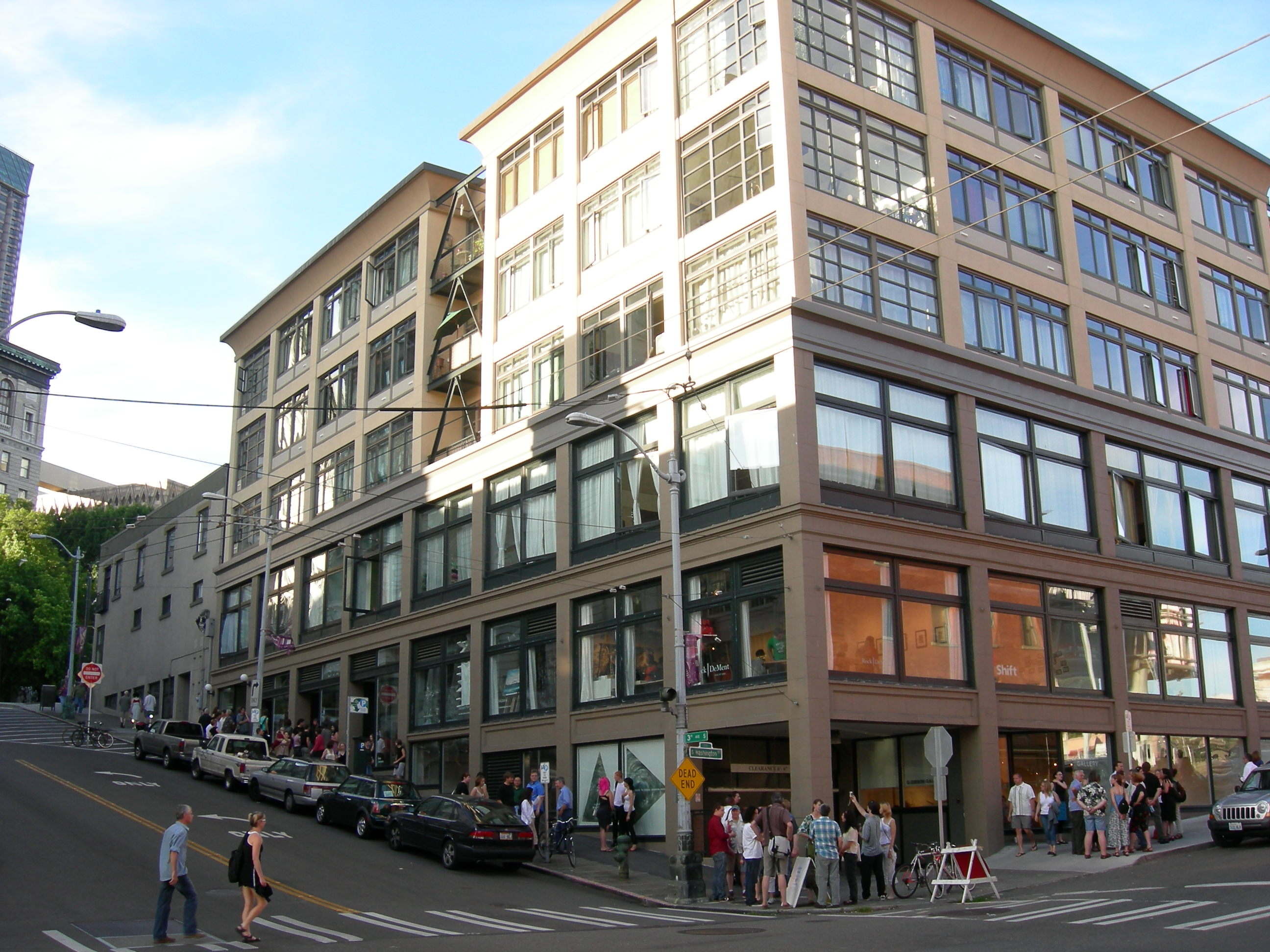 Southwest corner of Tashiro-Kaplan Building, Pioneer Square, Seattle, Washington on the first Thursday in July 2007. First Thursday is the traditional evening for Pioneer Square gallery openings. The Tashiro-Kaplan Building has one of the area's highest concentrations of galleries and artists' studios